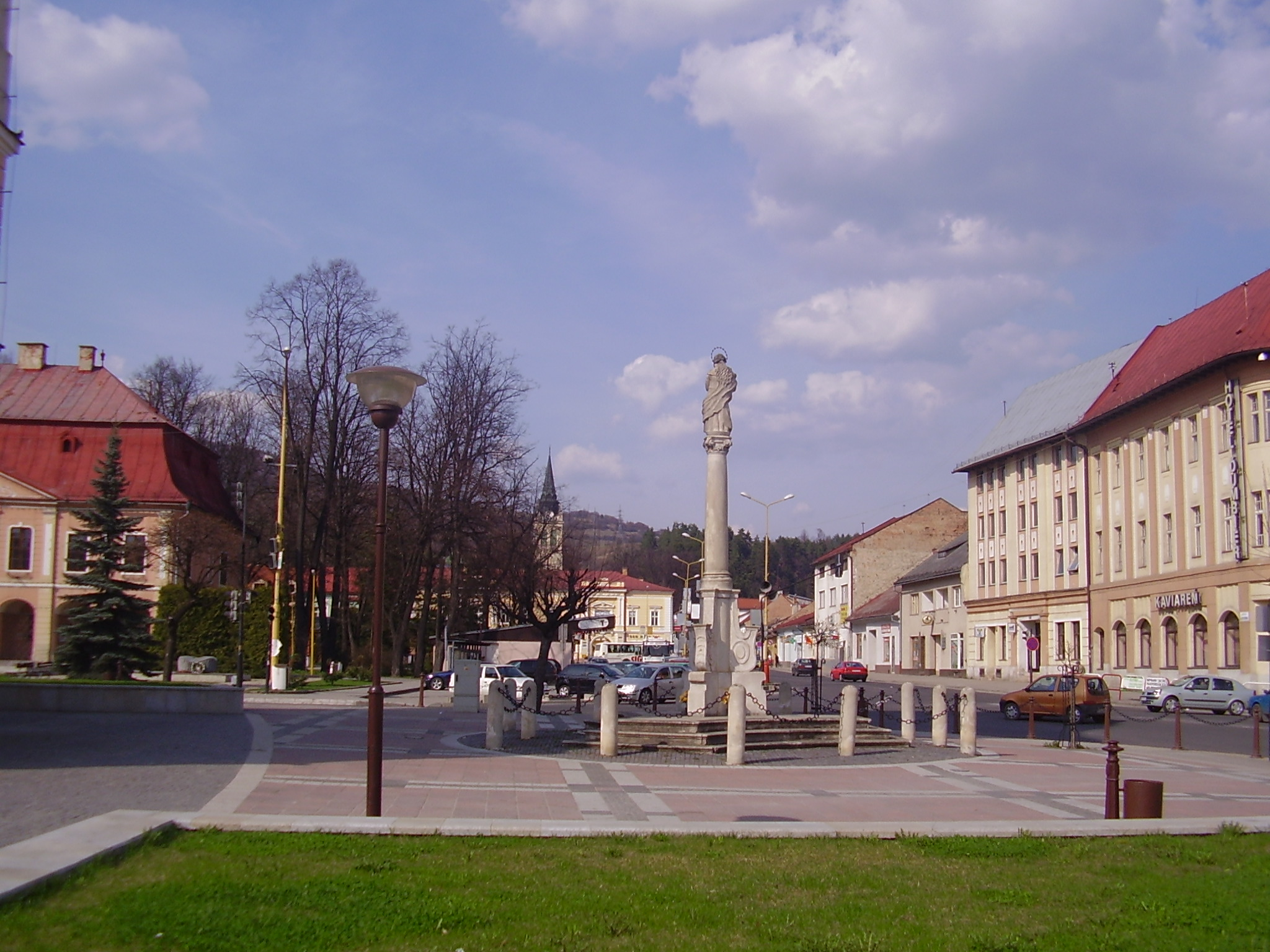 Marian Column in Brzeno (Slovakia)